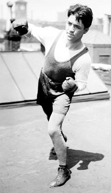 "Informal portrait of pugilist Sammy Mandell throwing a punch, standing in a boxing stance on the roof of a building in Chicago, Illinois. Rooftops and buildings are visible in the background."